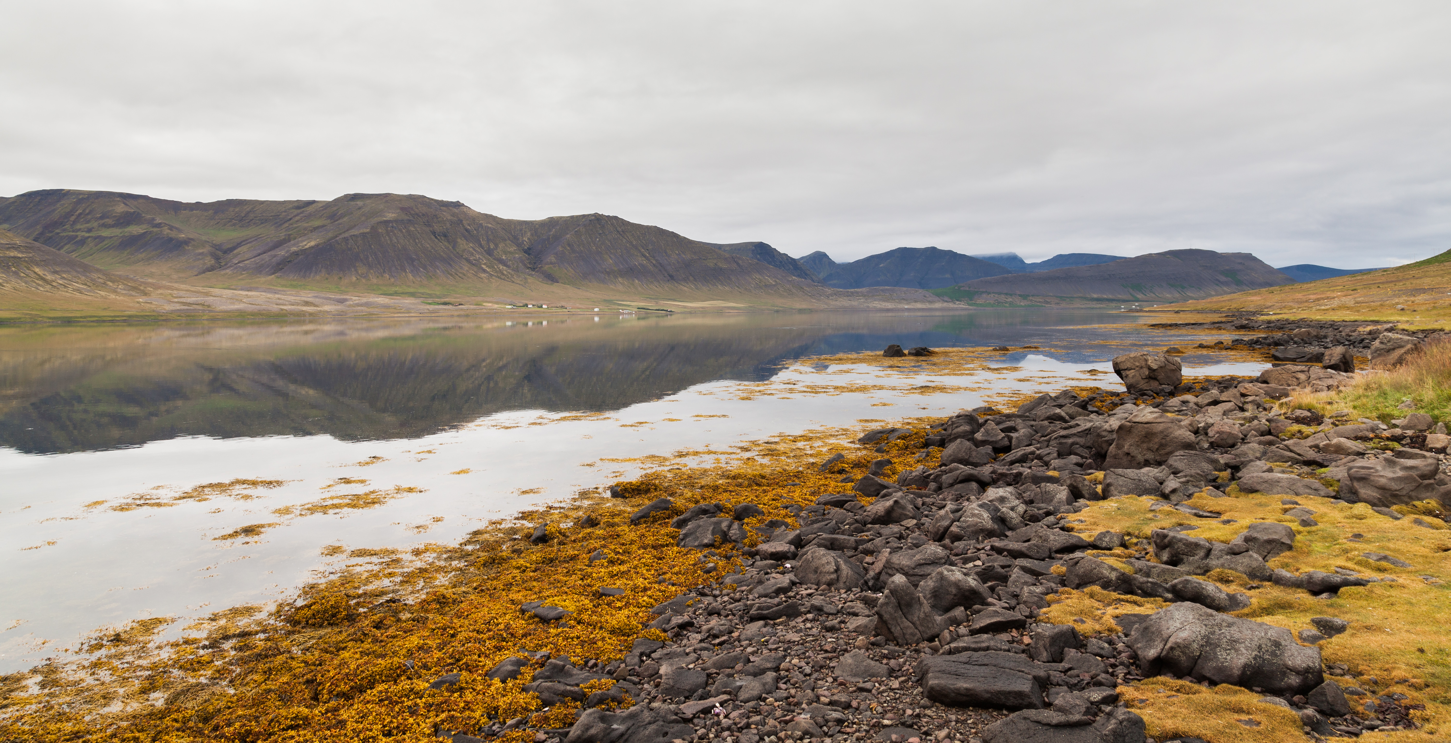 Dýrafjörður, Vestfirðir, Iceland